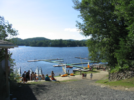 The Agam at Camp Massad Copyright Camp Massad; permission granted by Camp Massad for use of this image at